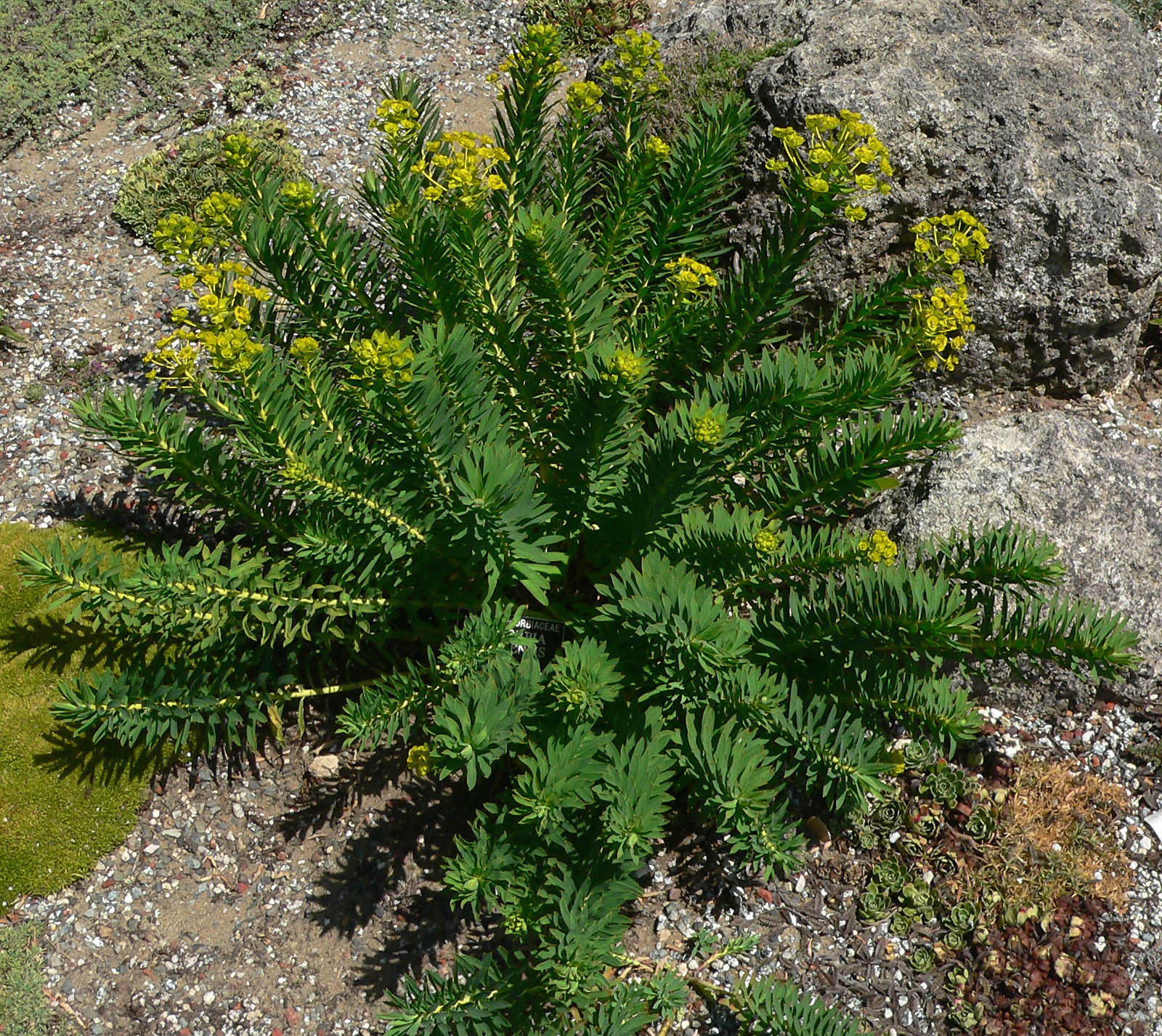 Photo of Euphorbia nicaeensis at the San Francisco Botanical Garden